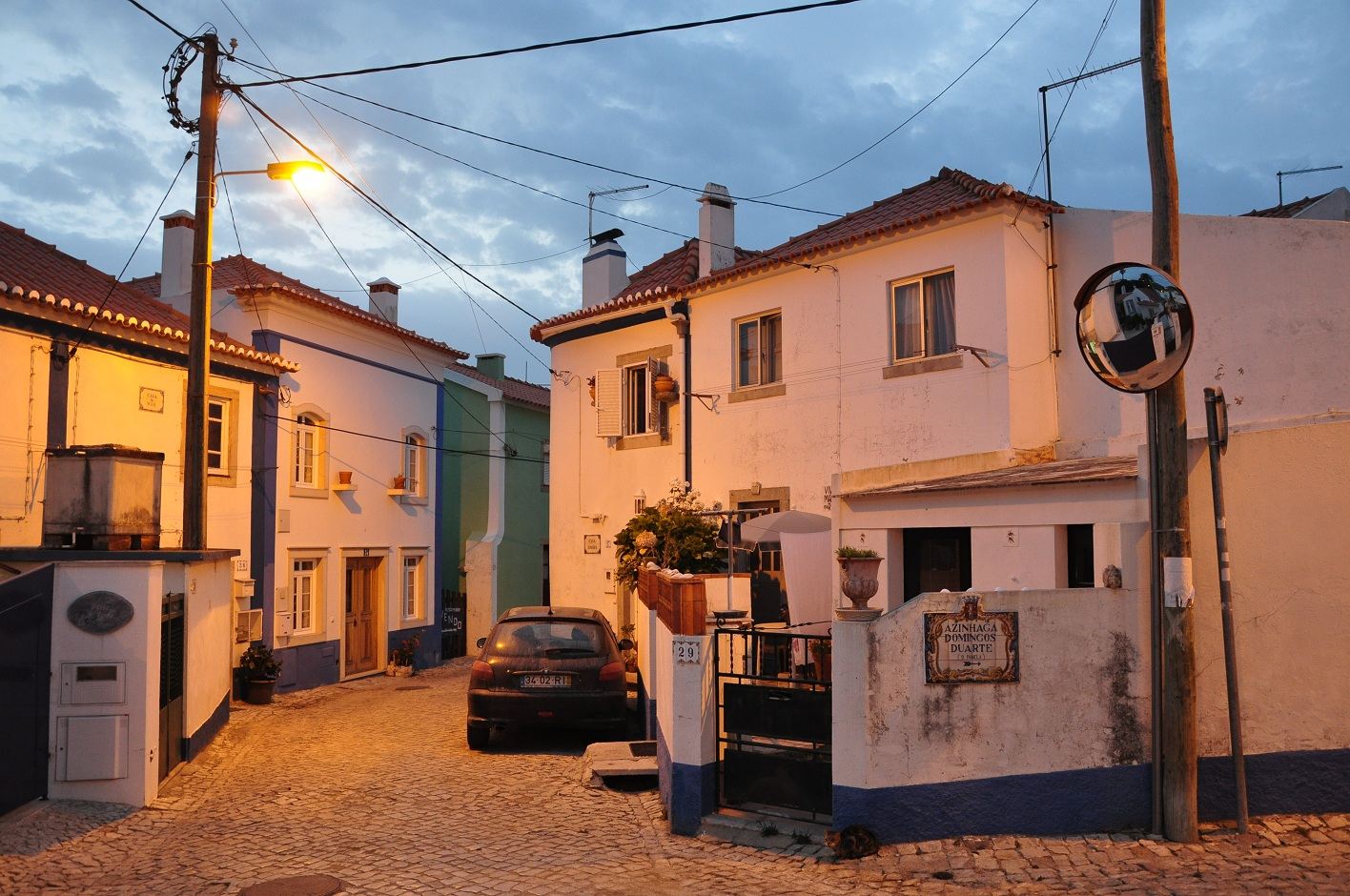 Rua dos Combatentes do Ultramar ('Overseas Combatants Street') in Almoçageme (Portugal, Estremadura, Minicipality of Sintra, Freguesia Colares).